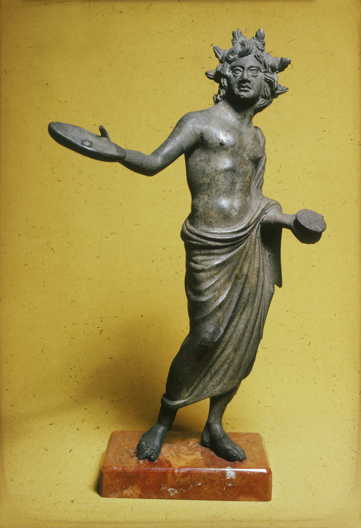 In his left hand, the priest holds an incense box, and, in his right hand, a "phiale" (shallow bowl) used to pour ritual liquid offerings. His twisting pose, long hair, and expressive face are strongly influenced by Greek Hellenistic style. The leafy crown was worn by an official when making a votive sacrifice.